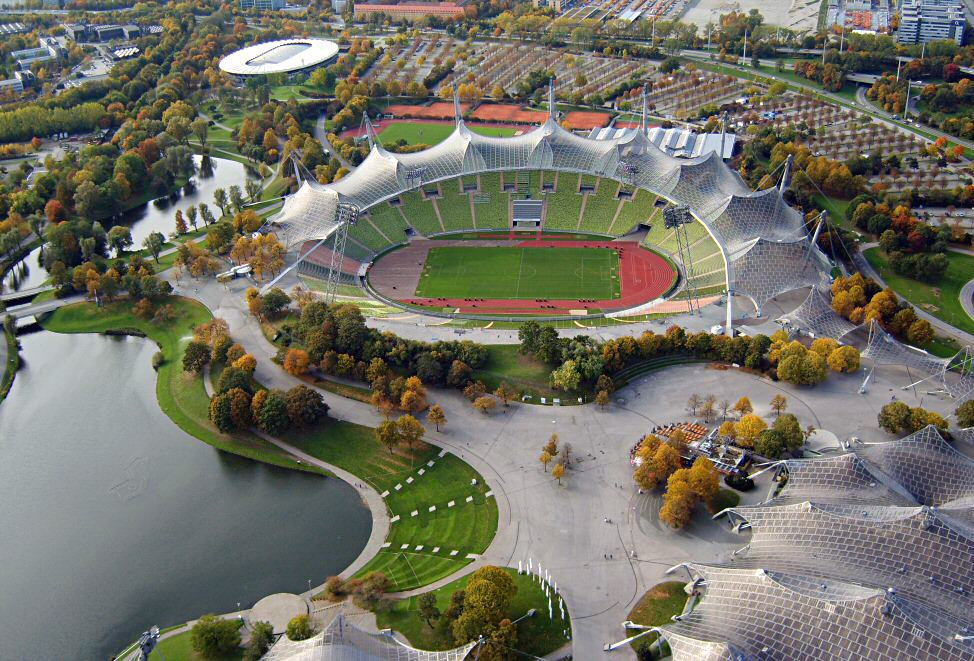 Munich Olympic stadium, view from Olympic Tower.